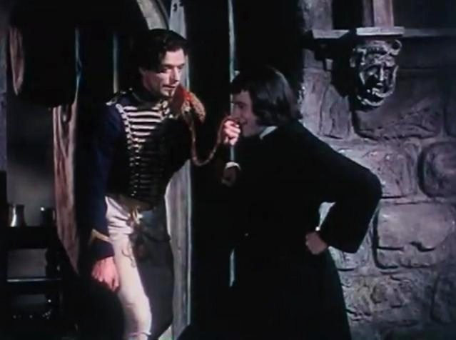 Eugene Deckers (left) & Cyril Cusack in The Elusive Pimpernel aka The Fighting Pimpernel - US-trailer (cropped screenshot)